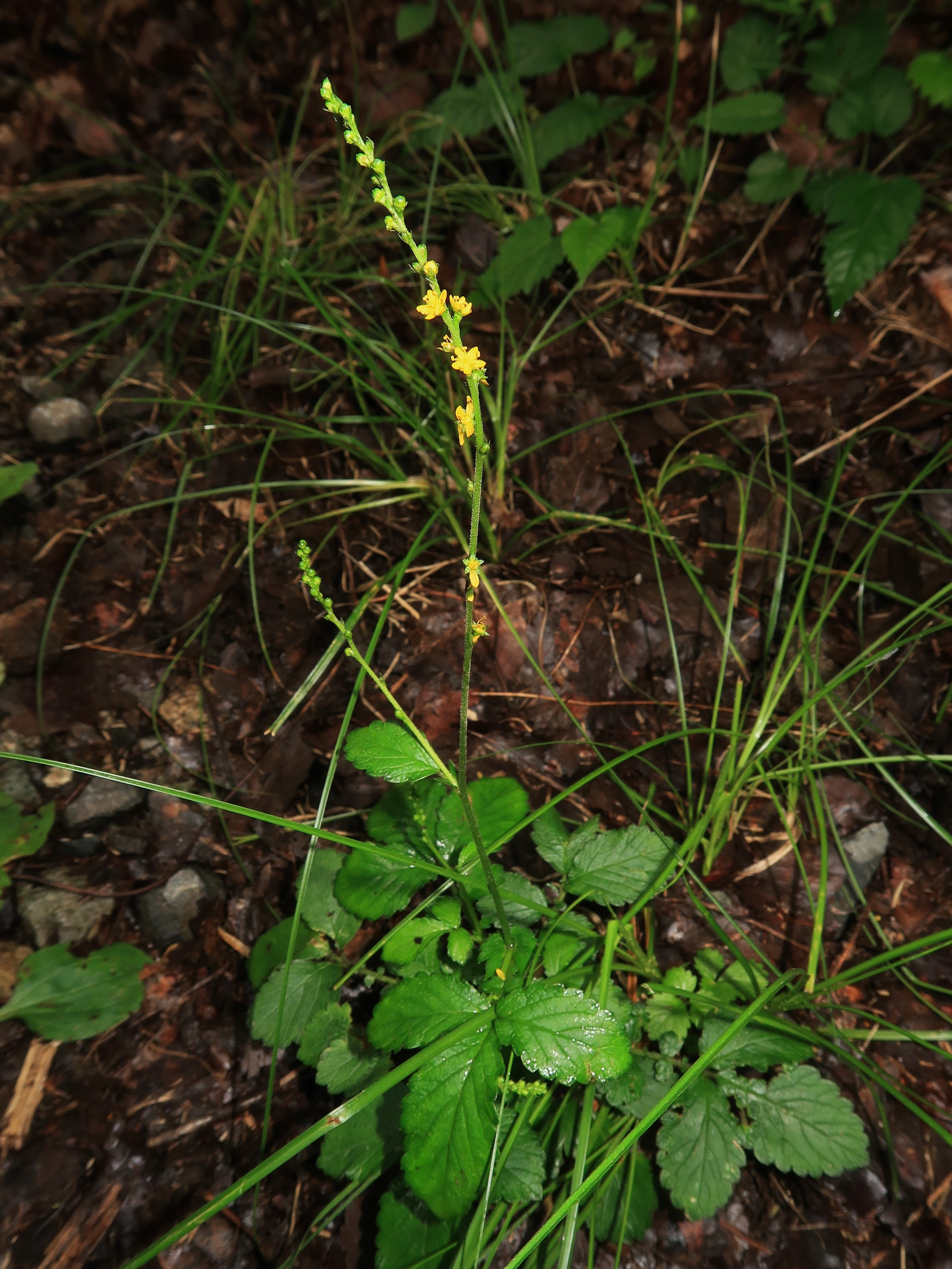 Agrimonia nipponica, Aizu area, Fukushima pref., Japan